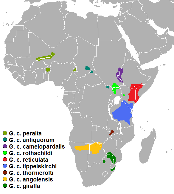 Distribtion map of subspecies of giraffe.